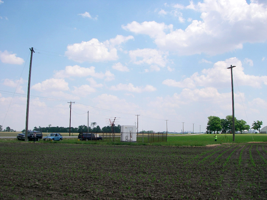 Locating Outer Marker - Non-Directional Beacon co-located with an Outer Marker